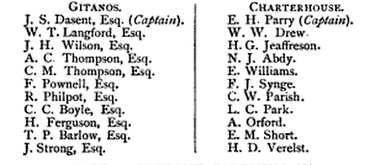 Football lineups for 8 November 1873 match between Charterhouse School and Gitanos F.C.